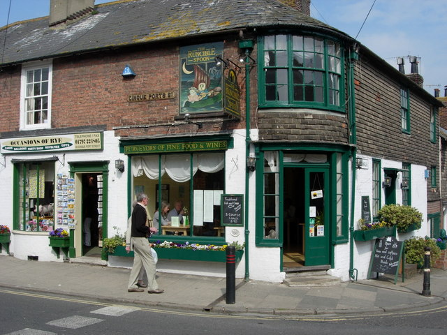 Rye: The Runcible Spoon pub. Located 62 Cinque Ports Street, Rye, East Sussex. It is a Grade II listed building and dates from the early 1800's. This stretch of road, running alongside the partly existing town wall, was once used to twist and make the ropes for fishing and agricultural purposes. The Runcible Spoon was invented by Edward Lear, which is in his poem 'The Owl and the Pussycat'.